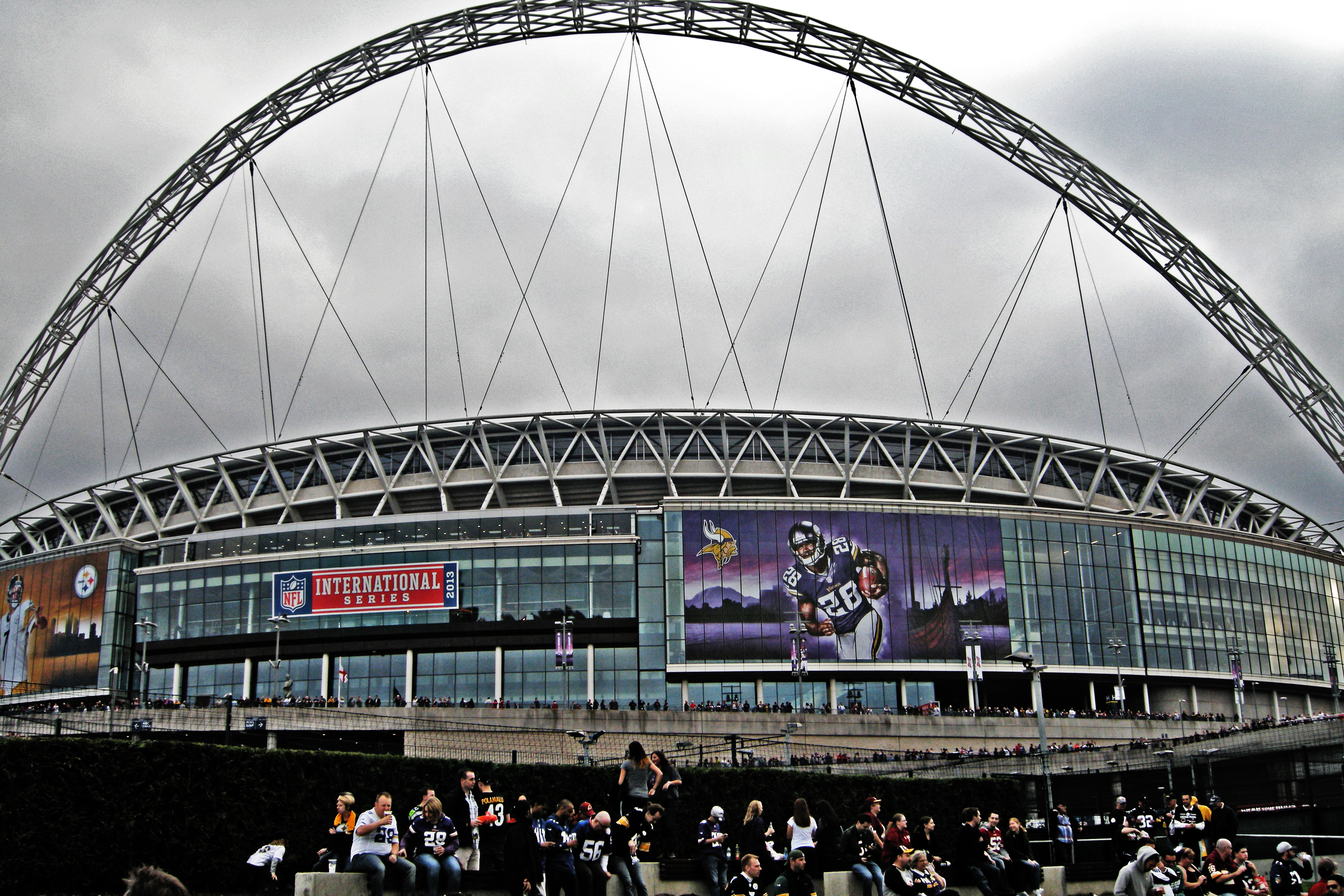 Wembley Stadium during Steelers-Vikings, week 4 match of the 2013 NFL International Series.